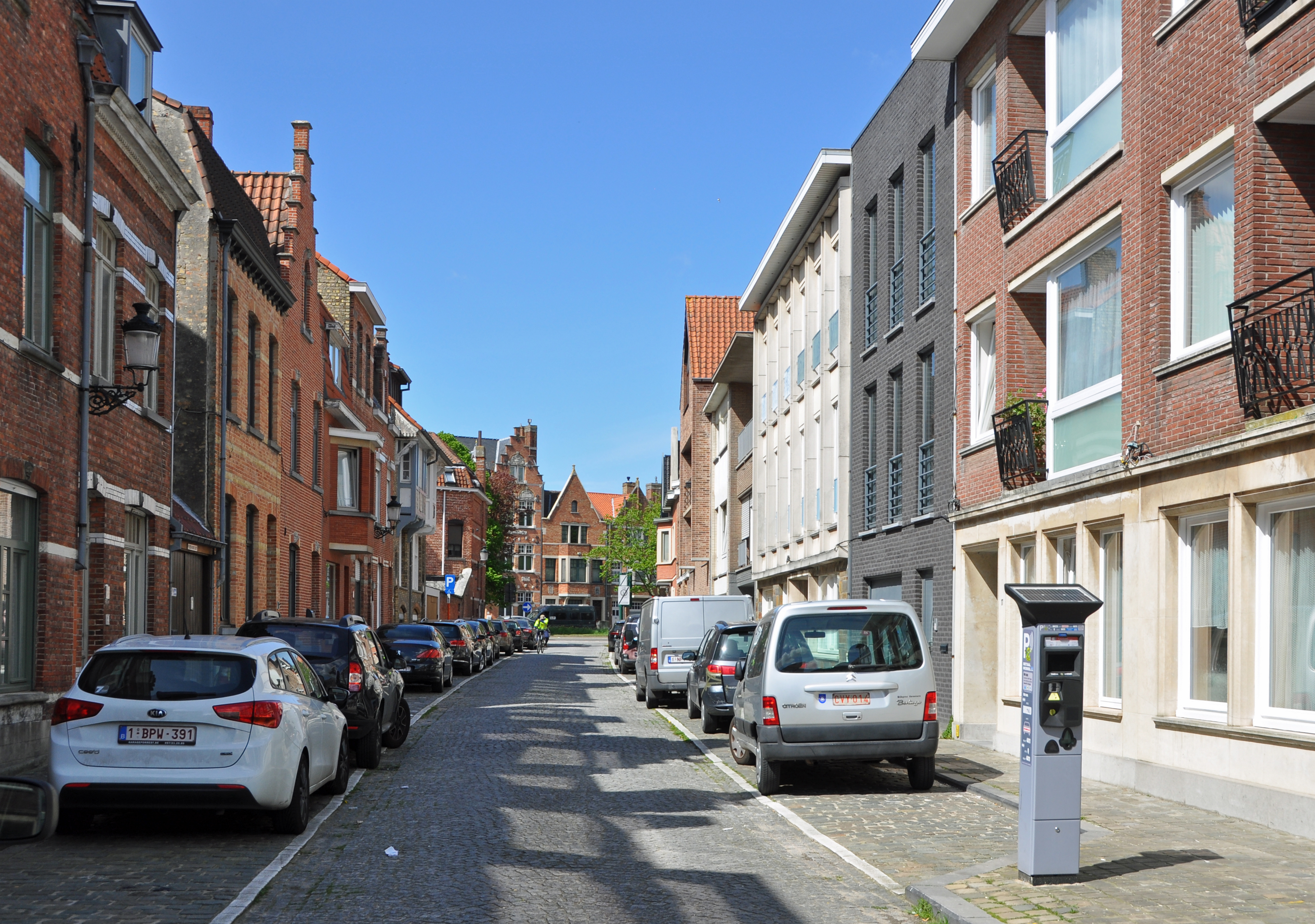 Bruges (Belgium): Biezenstraat